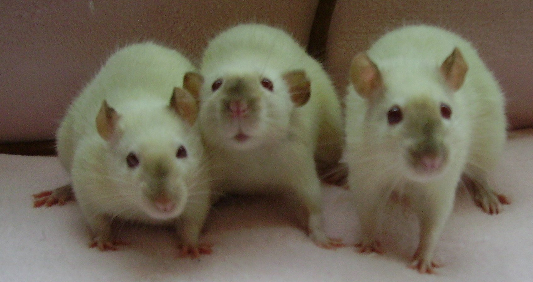 Fancy rat siamese While the file is named "Rat siamese", these markings are in fact attributed to the Himalayan variety as defined by various rat fancy groups. NFRS for example. Photo: tinneke (